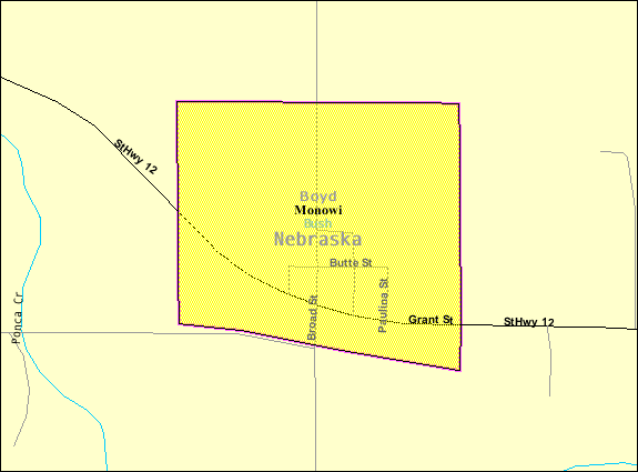 Map of Monowi, a village in Boyd County, Nebraska, United States, with its boundaries at the time of the 2000 census.